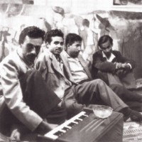 At the Azimpur flat of Aminul Islam in 1959, (from left) Mohammad Kibria, Aminul Islam, Rashid Chowdhury and Qayyum Chowdhury.